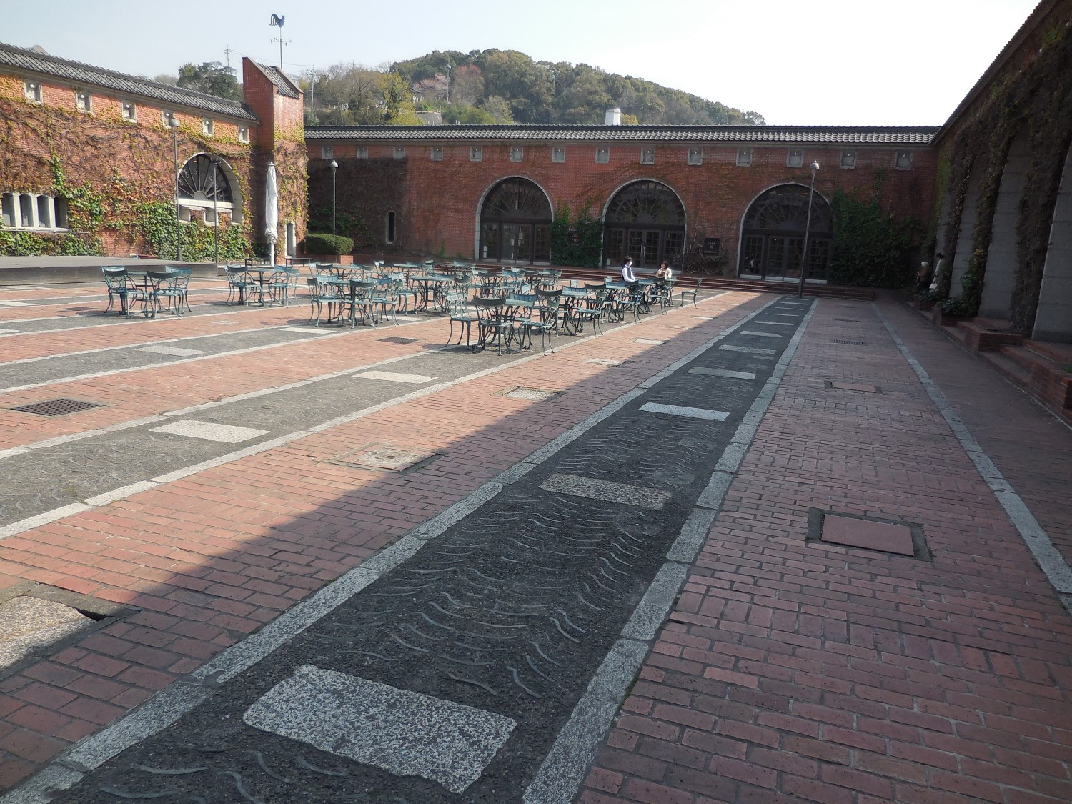 Ivy Square at Kurashiki, Japan